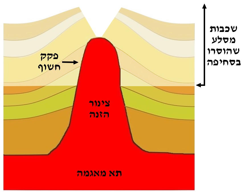 Volcanic Plug